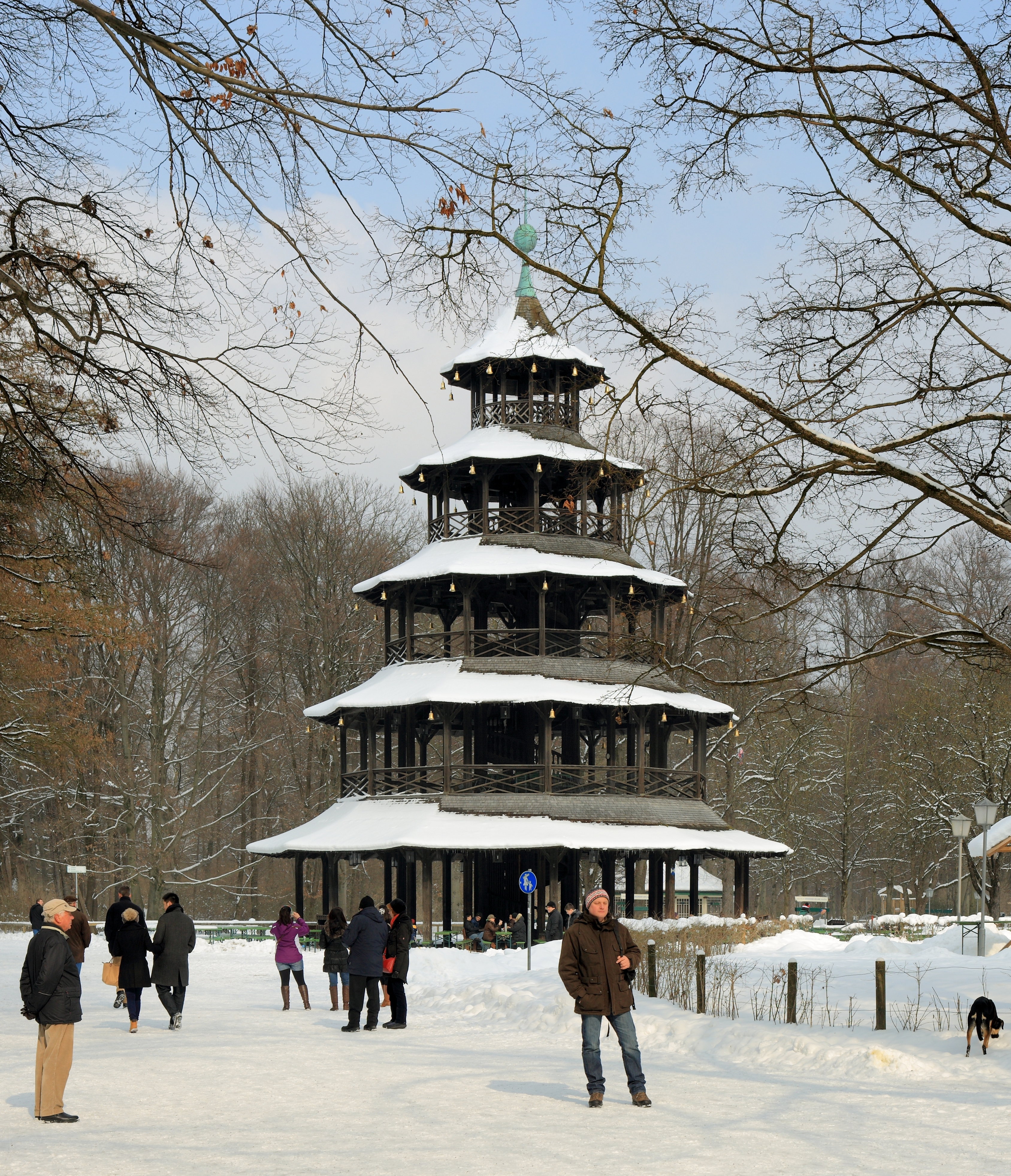 Chinese Tower, English Garden Munich, in February